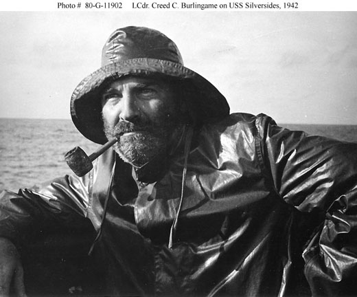 LCdr Creeg Burlingame on USS Silverside (SS-236) in 1942